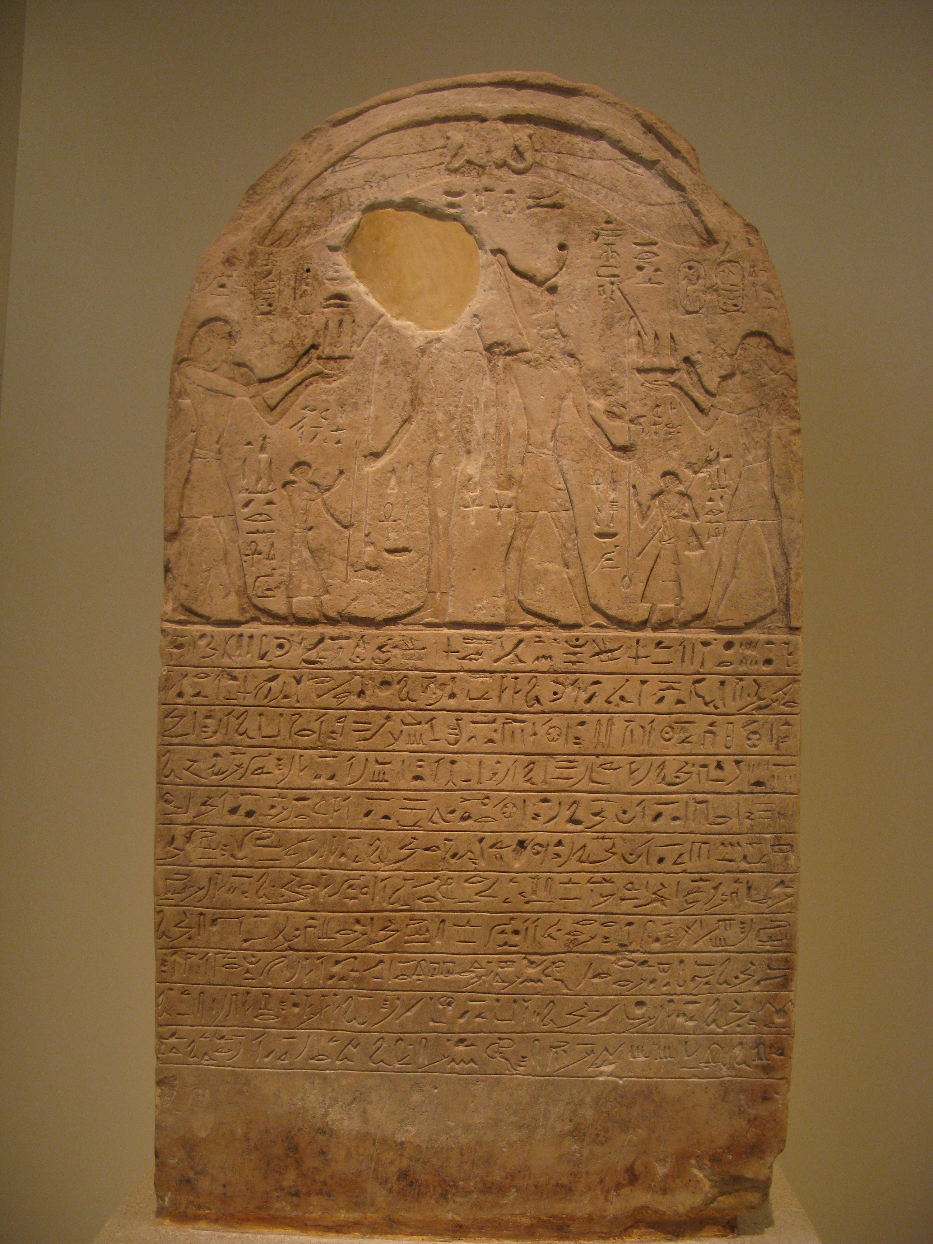 Pharaoh Shepsesre Tefnakht I's stone donation stela from Sais dedicated to the Egyptian goddess Neith now located at the National Archaeological Museum of Athens, Greece. This stela constitutes one of the most important documents for this Lower Egyptian Delta king who ruled during the Kushite period of Egypt in the Third Intermediate Period (c.8th century BCE) because it preserves a date within his reign: his 8th Regnal year.